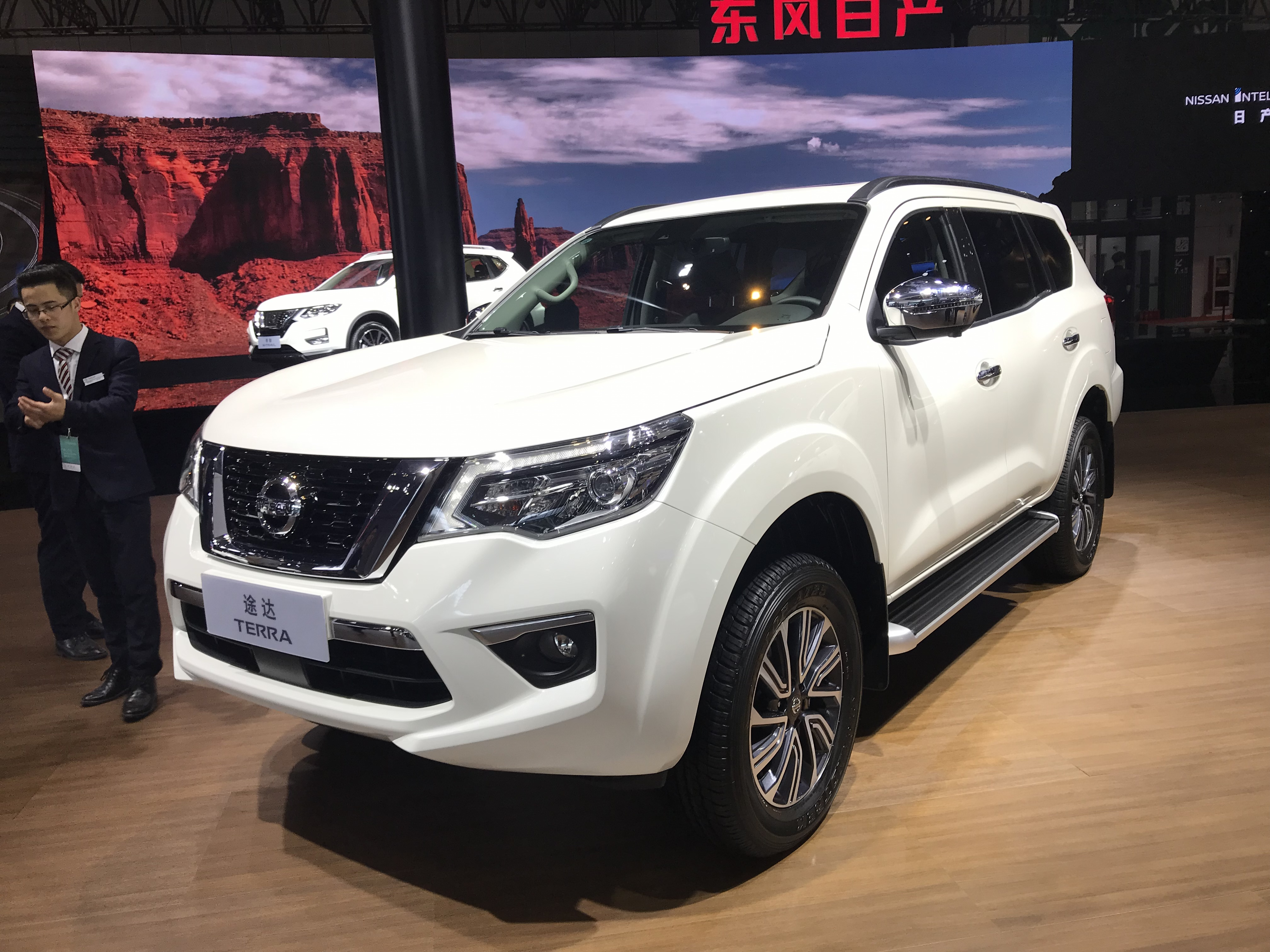 Nissan Terra front